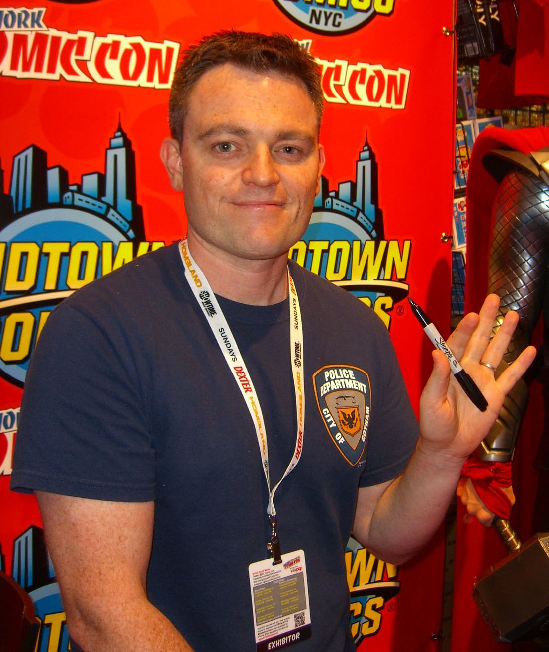 Comics creator Scott Snyder on Day 3 of the 2012 New York Comic Con, Saturday October 13, 2012 at the Jacob K. Javits Convention Center in Manhattan. This photo was created by Luigi Novi. It is not in the public domain, and use of this file outside of the licensing terms is a copyright violation.